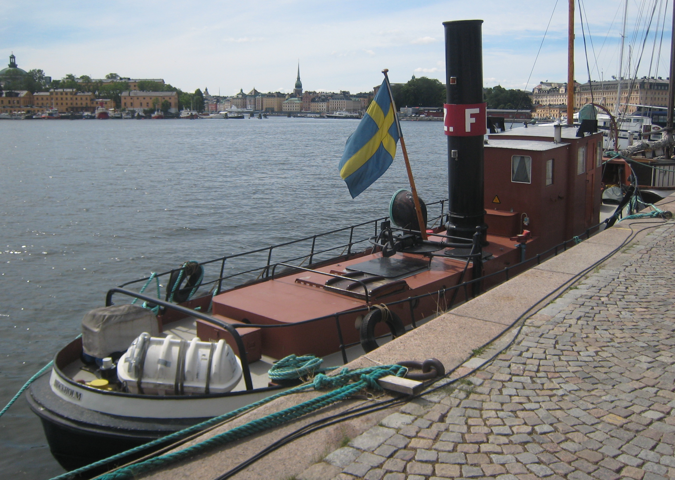 Bogserbåten Fritz. This is an image of the protected Swedish ship Fritz, with call sign SGPW .